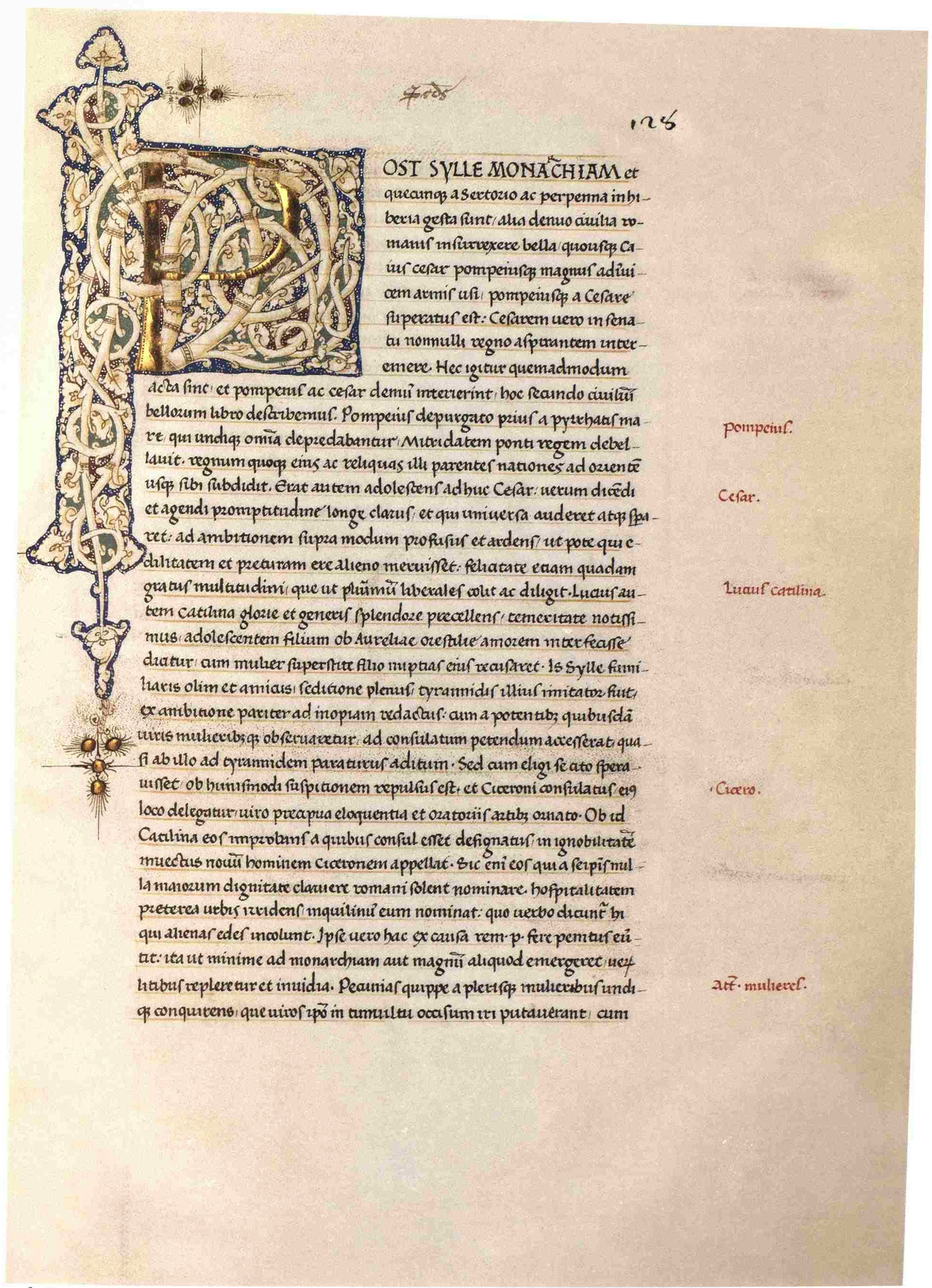 A page of the Latin translation of Appian’s „Roman History“ by Pier Candido Decembrio in the manuscript Paris, Bibliothèque nationale de France, Lat. 5786, fol. 128r.